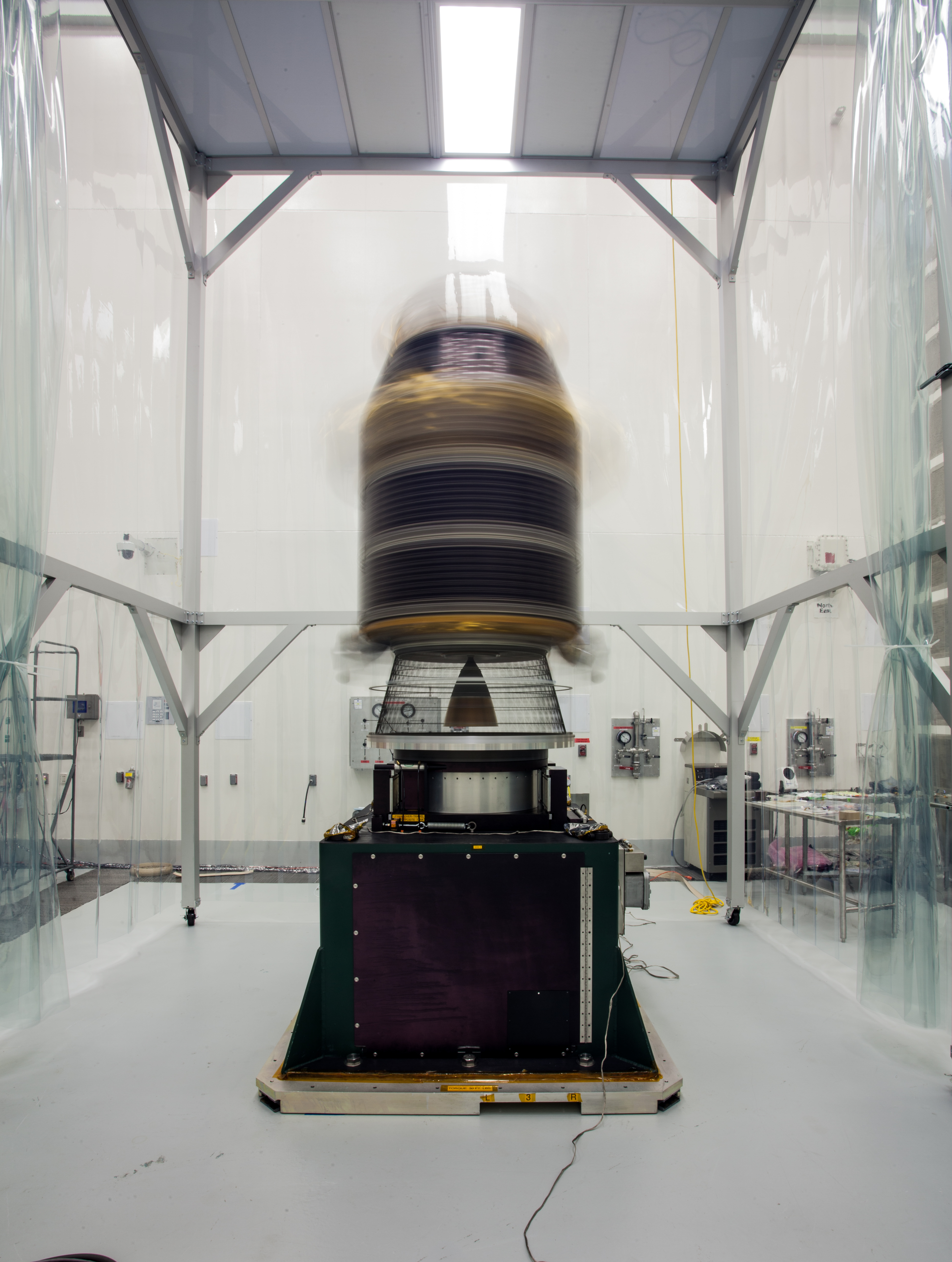 To make sure that the Lunar Atmosphere and Dust Environment (LADEE) spacecraft is perfectly balanced for flight, engineers mount it onto a spin table and rotate it at high speeds, approximately one revolution per second.